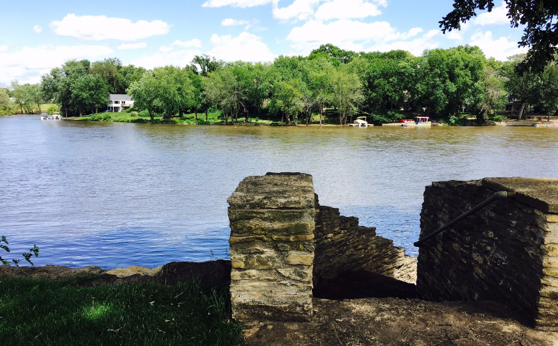 A set of stone steps lead to a river walk on the Eastern shore of Sans Souci Island in Waterloo, Iowa